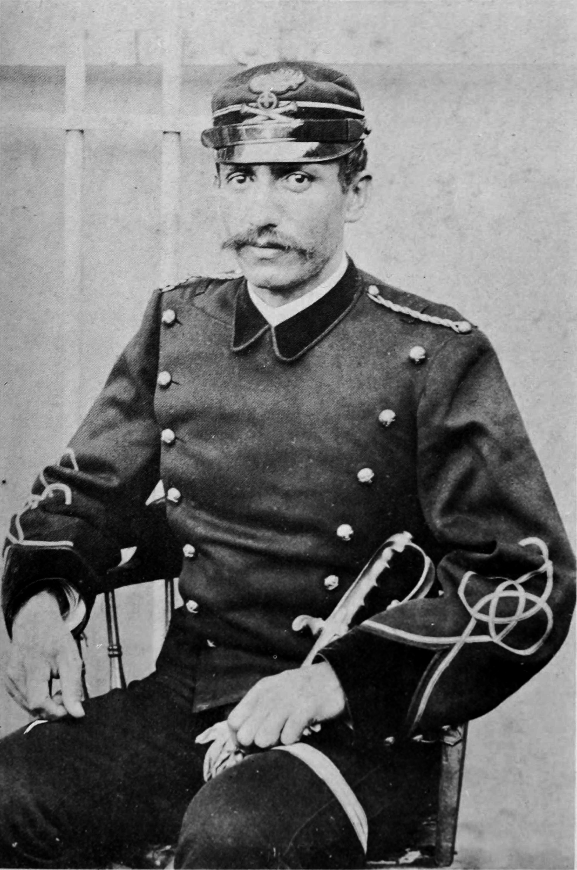 Photograph of Robert William Wilcox taken in 1889, at the Honolulu police station in his Italian uniform